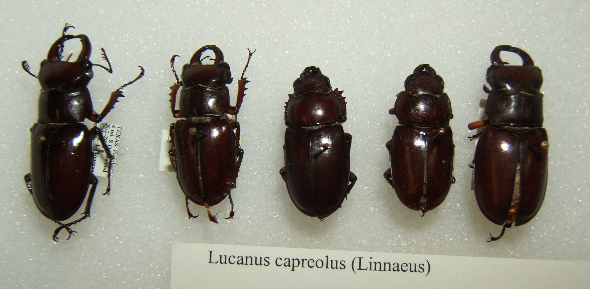 Lucanus capreolus adult taken by Shawn Hanrahan at the Texas A&M University Insect Collection in College Station, Texas.